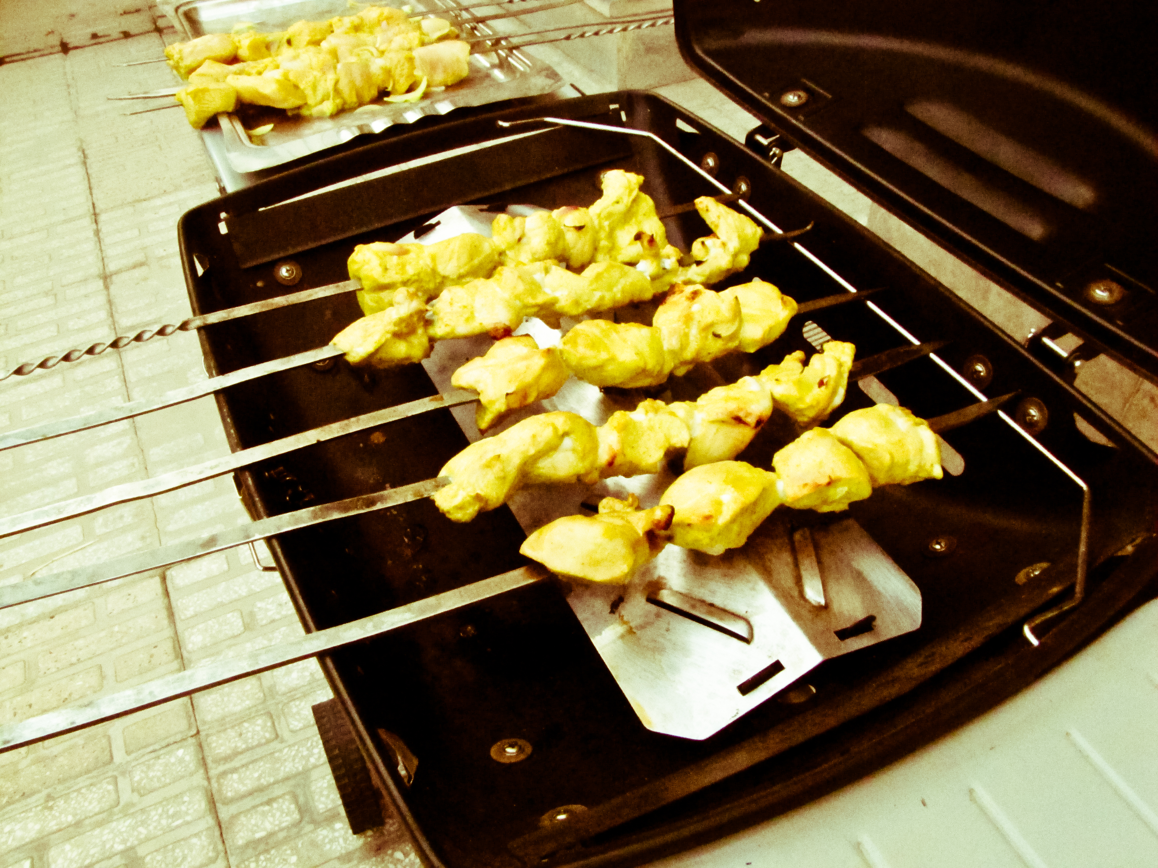 juje kabab, iranian food